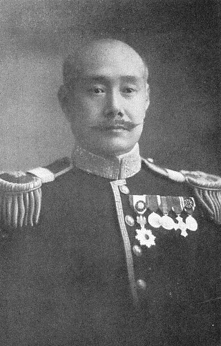 Sumio Omura